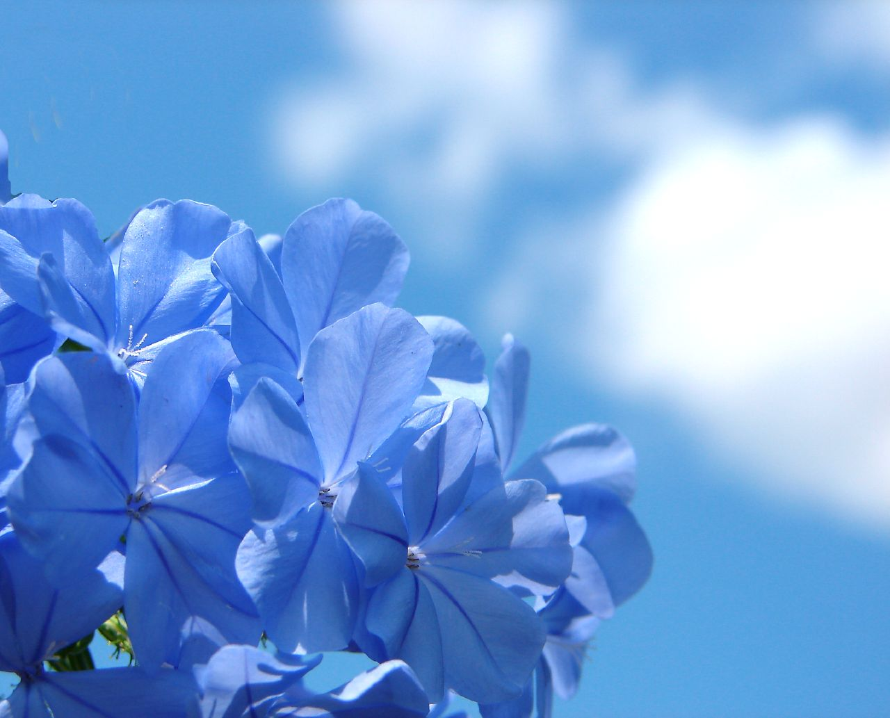 Plumbago blue flower